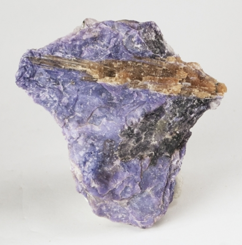 7.9 x 7.9 x 1.3 cm. Tinaksite and charosite are very rare complex silicates and the Murunskii Massif is the Type Locality for these colorful species (Chara and Tokko Rivers Confluence, Aldan Shield, Sakha Republic, Russia). An impressive, 7.8 cm tapered column of parallel-growth, lustrous and translucent, honey-brown tinaksite crystals is aesthetically set in a very colorful, rich lilac, foliated plate of waxy charoite. A fine, showy and rich combination specimen of these rarities from the Fersman Museum in Moscow. The label is from the Soviet era.